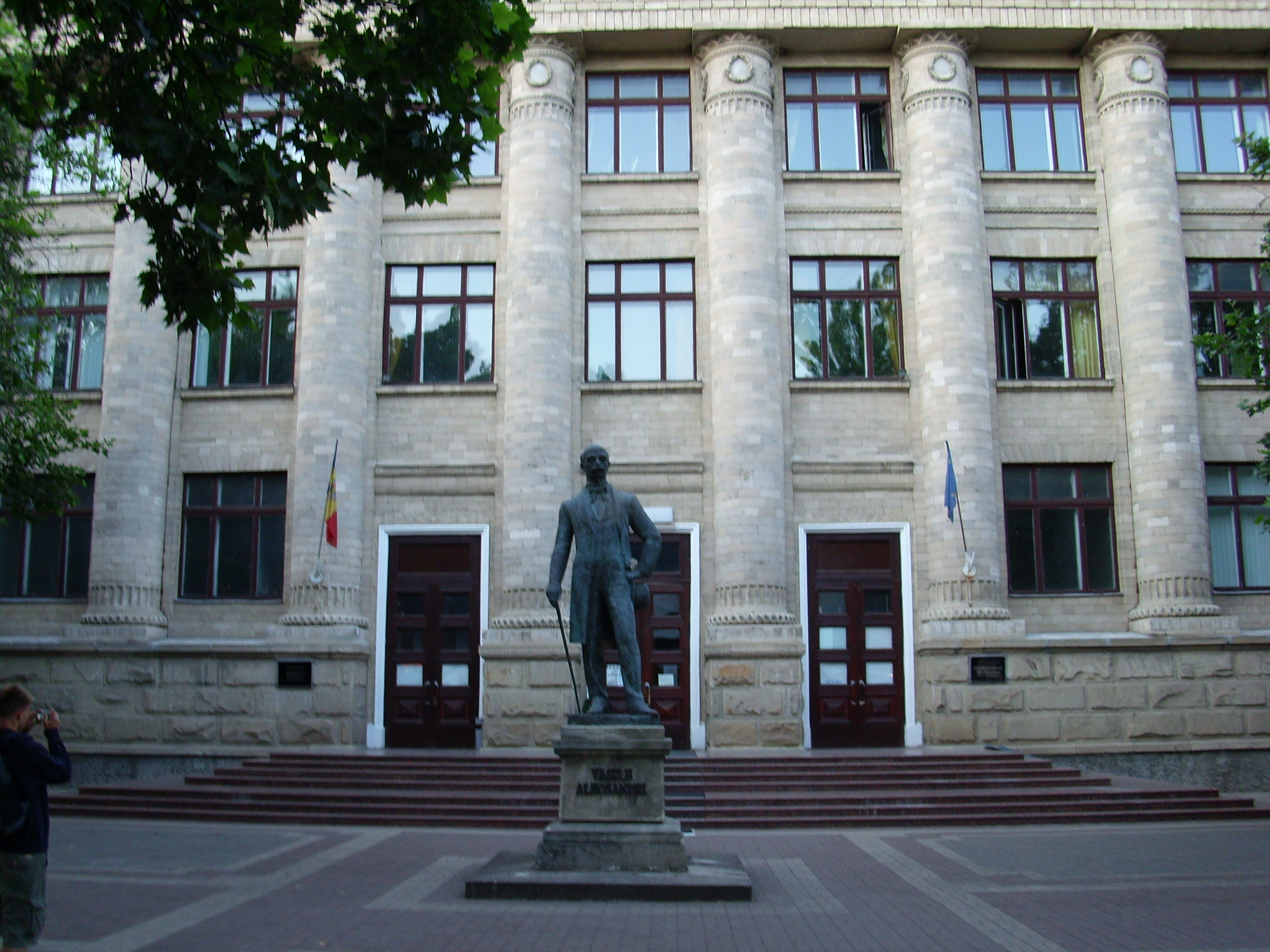 Chisinau / Kishinev, Moldova: the National Library - architect A.Ambartumian - statue of the poet Vasile Alecsandri by Ion Zderciuc - Str 31 August 1989 - Cladirea Bibliotecii Nationale